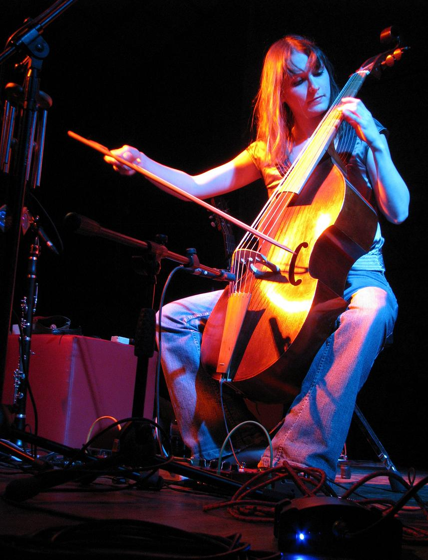 The composer Cécile Schott playing at the Lomax (Catania, Sicily) in april 2008